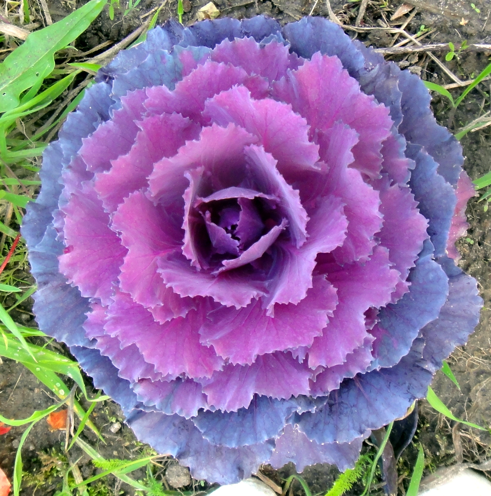 Ornamental kale in a garden